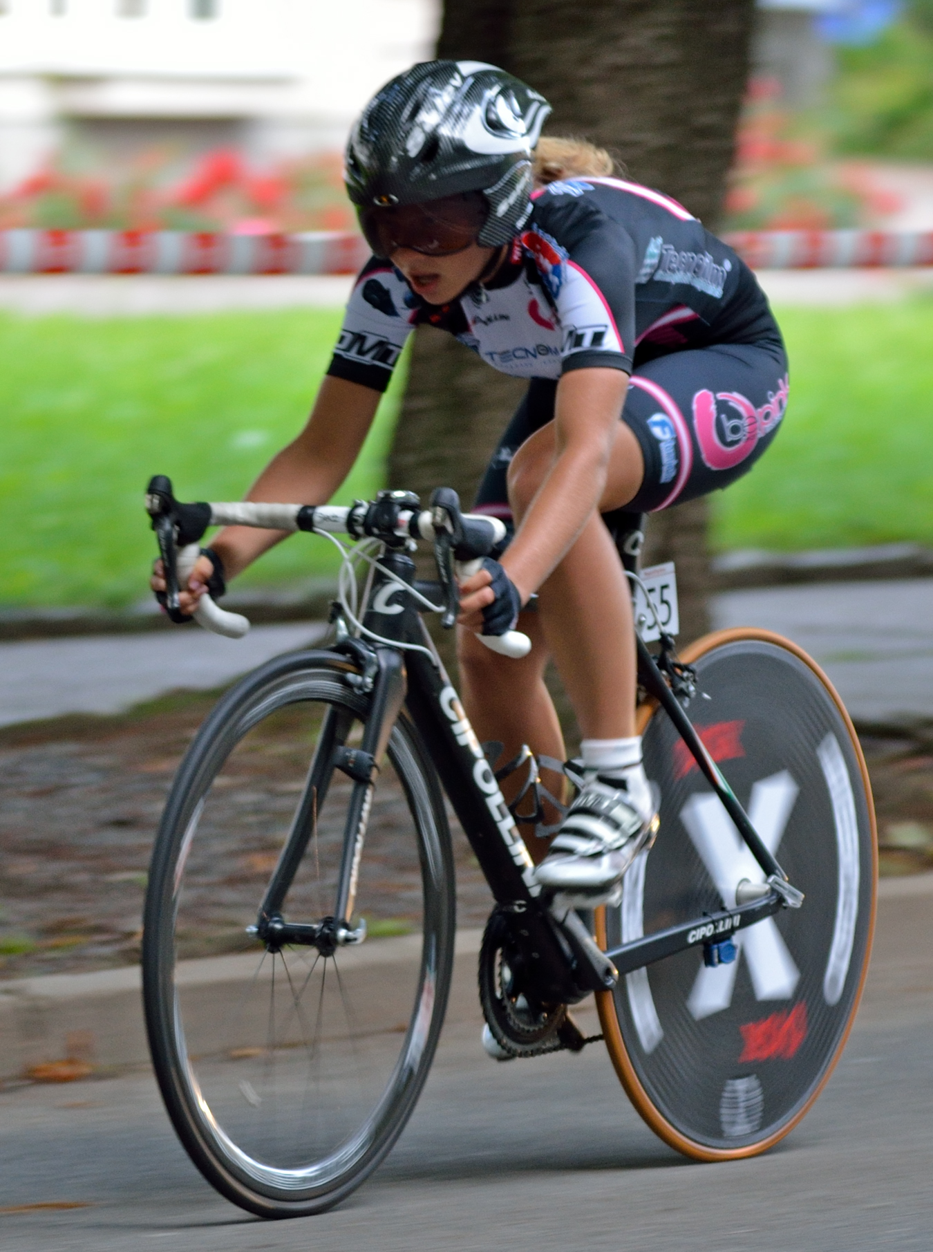 Petra Zrimsek from the Be Pink team during the Women's Tour of Thuringia 2012 in Zwickau, Germany.